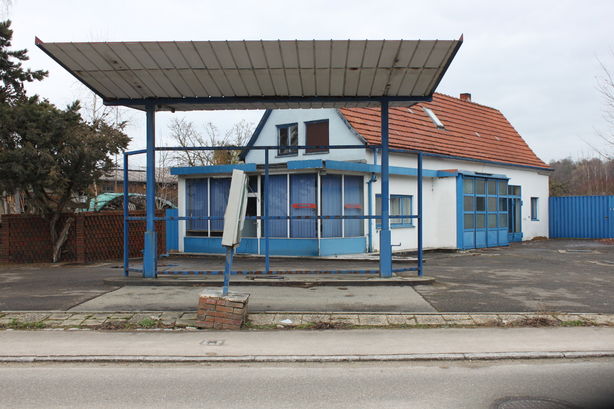 Georg Elser's house of birth in Hermaringen was at the place of the gas station. It's not the house in the background.